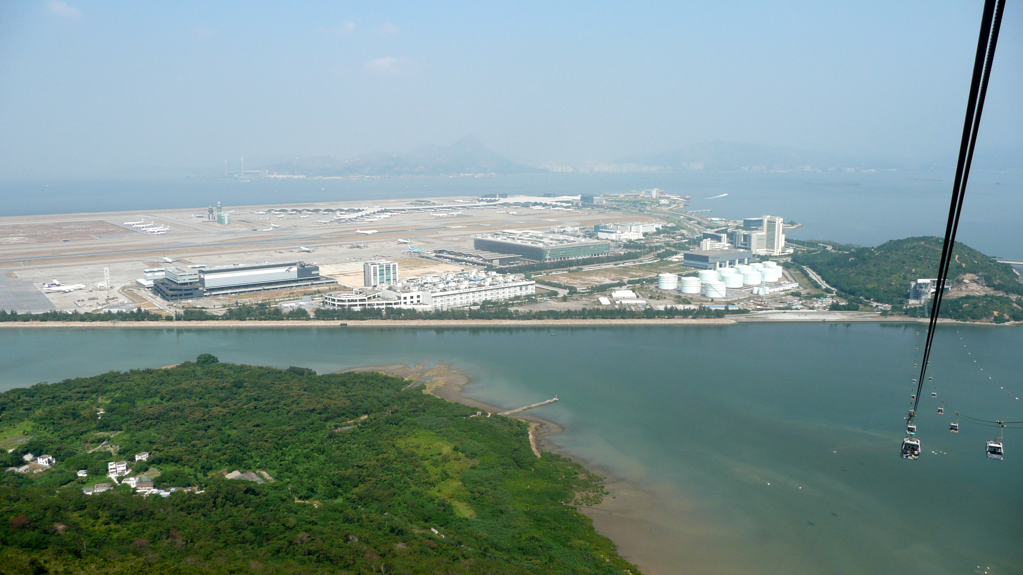 Hongkong International Airport Chek Lap Kok